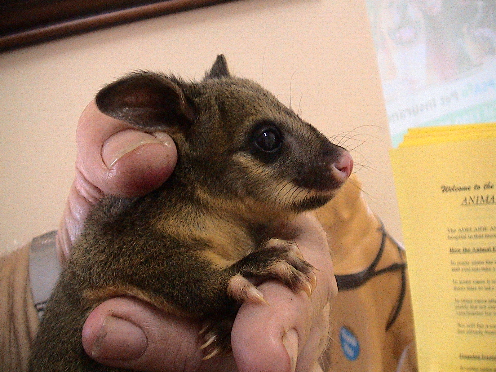 Abandoned baby common brushtail possum (Trichosurus vulpecula) about to be handed to a Fauna Rescue volunteer, after being found in my garden in Adelaide, South Australia.